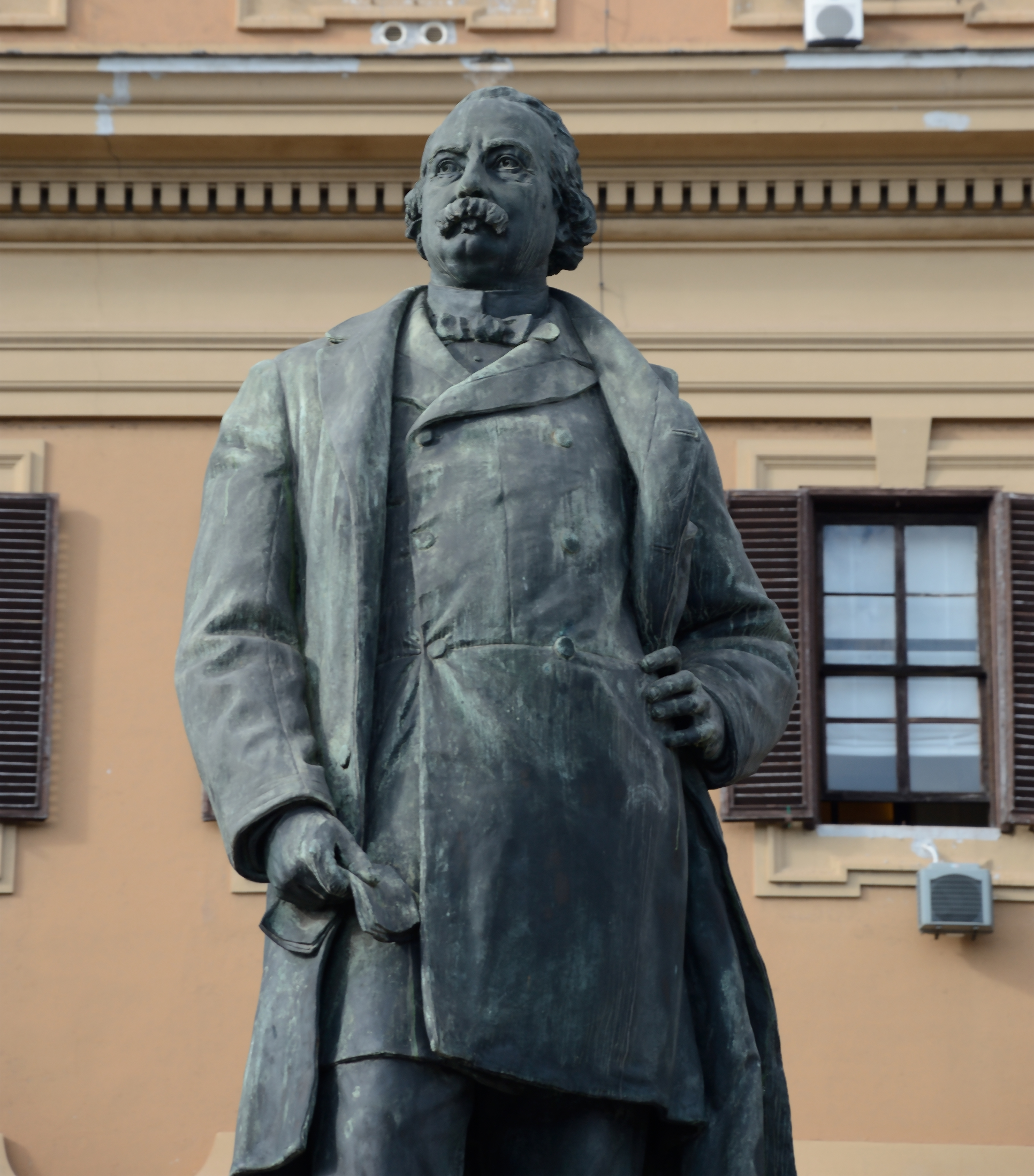 Copy of a statue of Silvio Spaventa in front of the ministry of finance, Via Venti Settembre (Rome). The original is in Bomba, province of Chieti